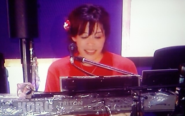 Yuko Hara, keyboardist at the Southern All-Stars 30th Anniversary Concert